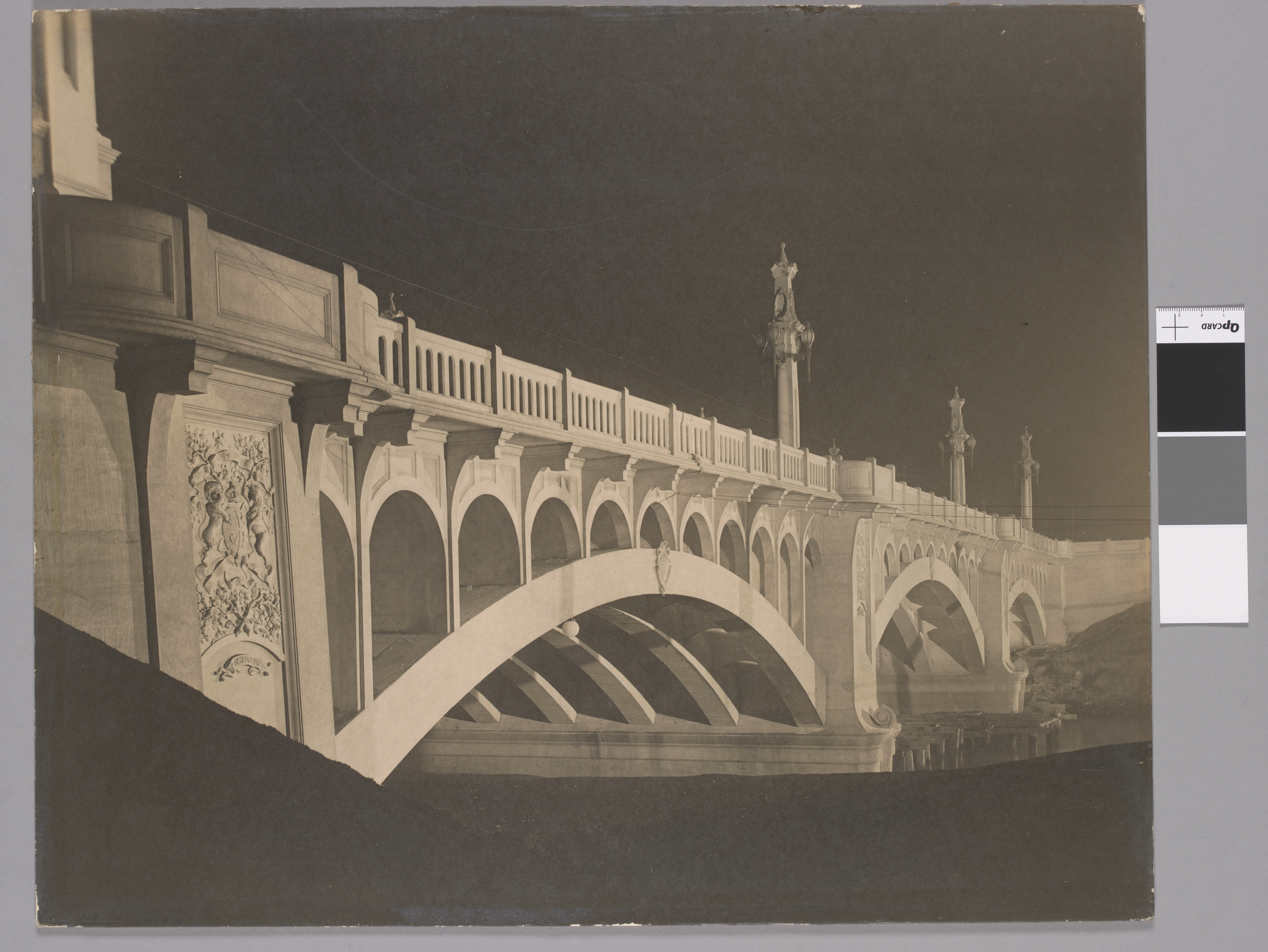 Church Street Bridge 1924. Architects Harold Desbrowe-Annear and Thomas Ramsden Ashworth.